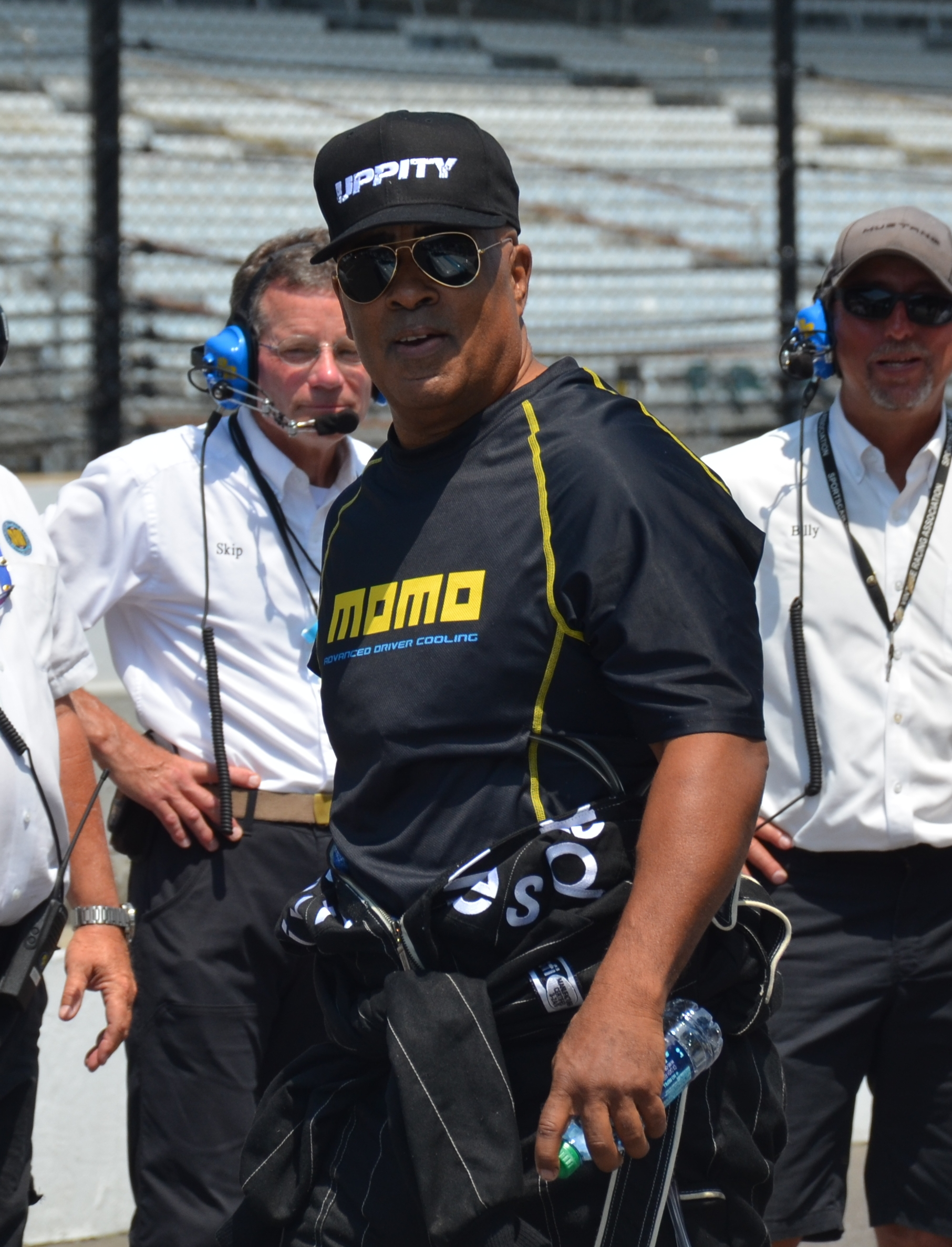 Willy T. Ribbs at the 2018 SVRA Brickyard Vintage Racing Invitational, Indianapolis Motor Speedway.